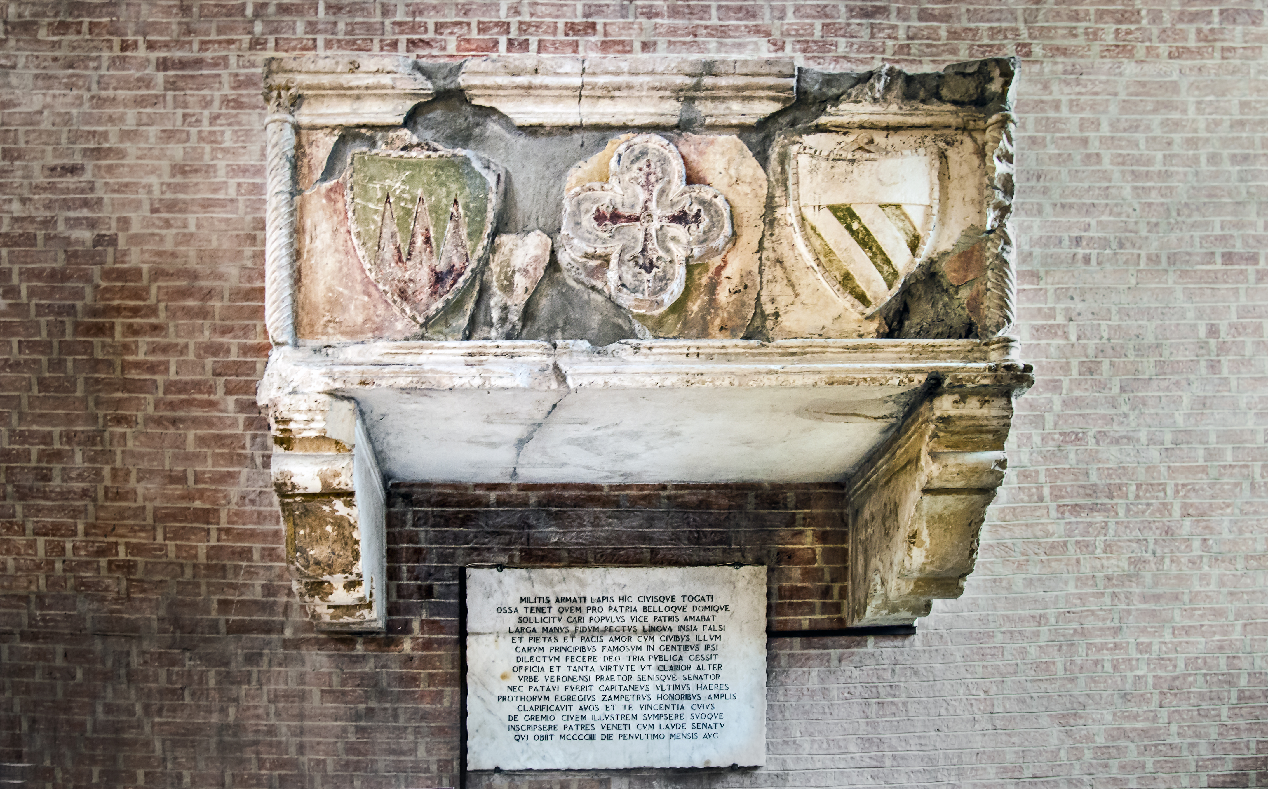 The interior of the Vicenza Cathedral - Chapel of St. James and St. Anthony the Great - Sarcophagus of Tommaso and Giampietro de Proti